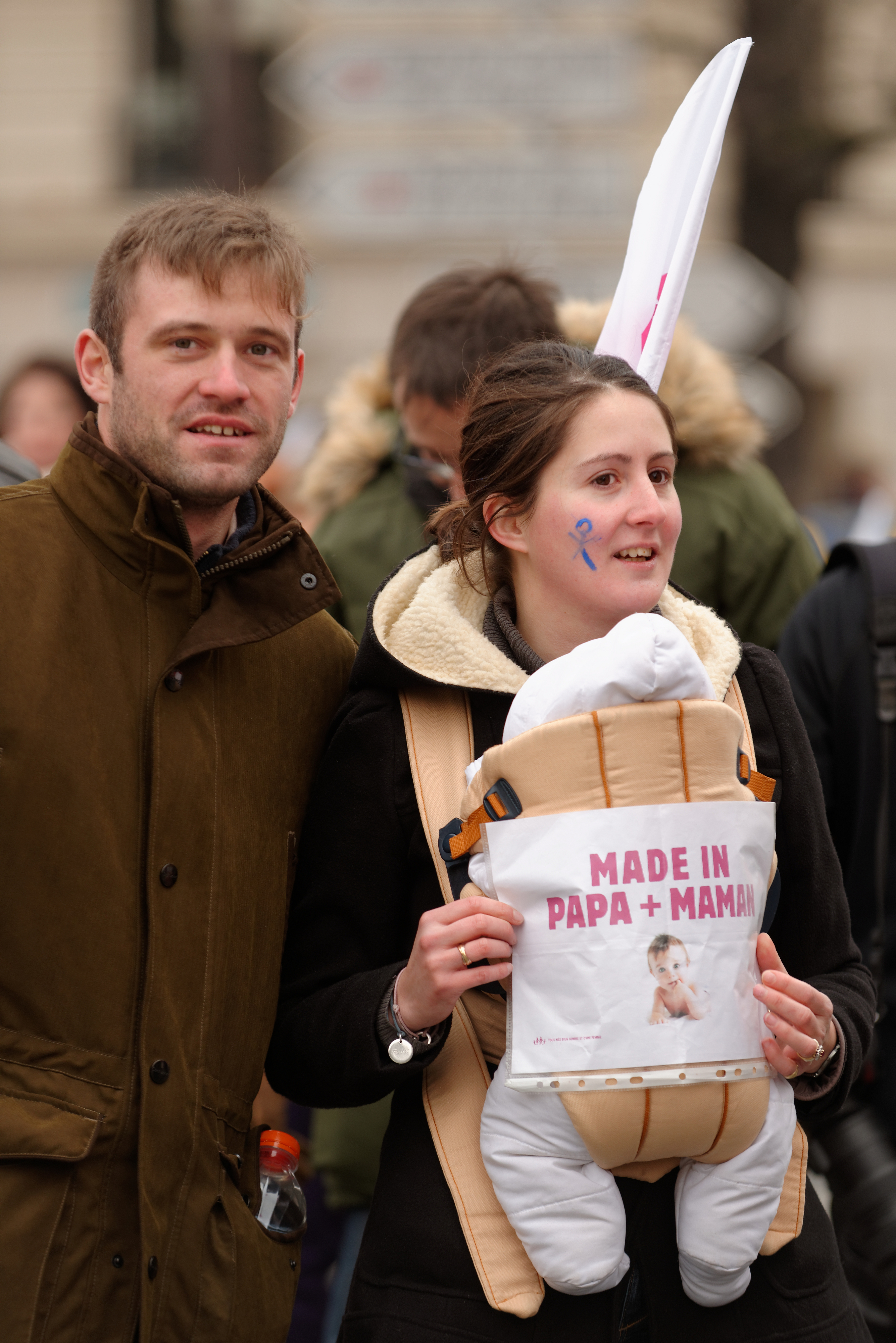 Demonstration against same-sex marriage in Paris on 13 January 2013 (“Manif pour tous”): the procession coming from Place d'Italie.